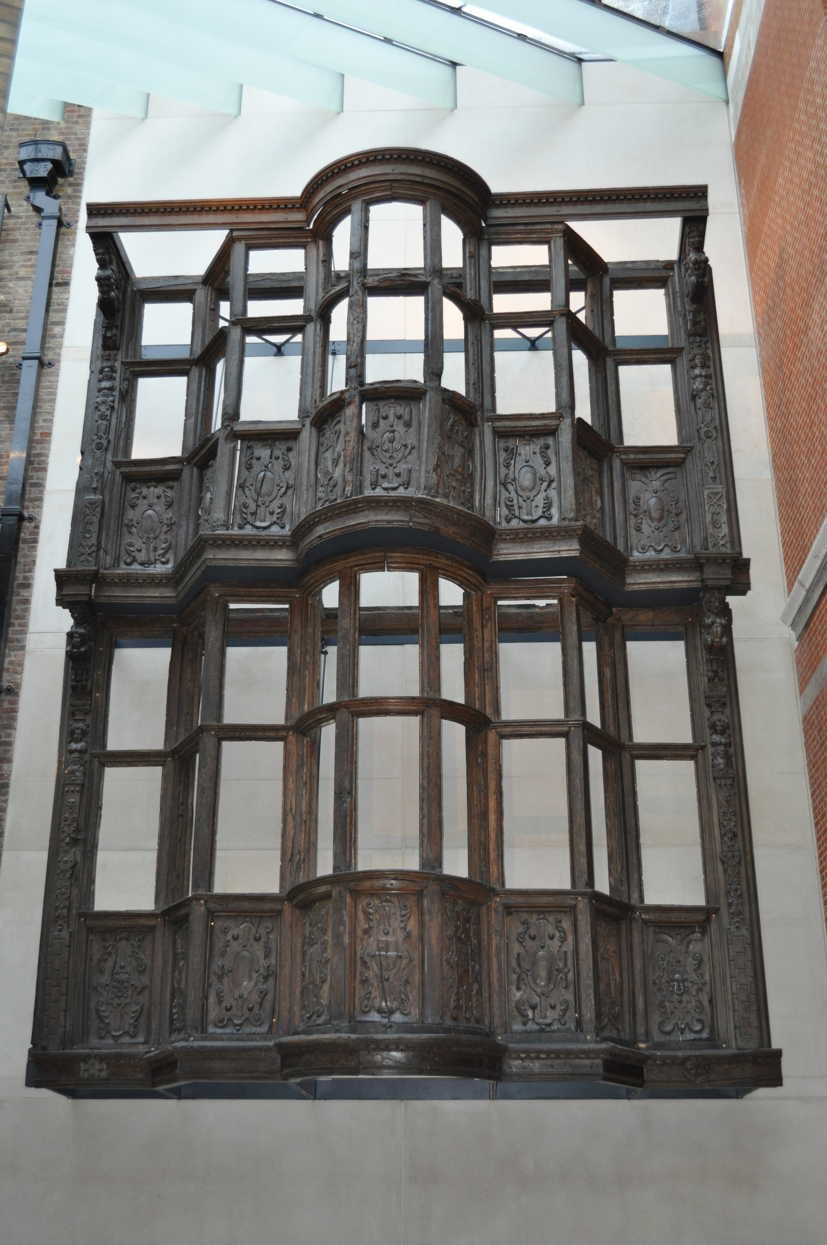 Own work Please attribute - tx K.B. Thommpson